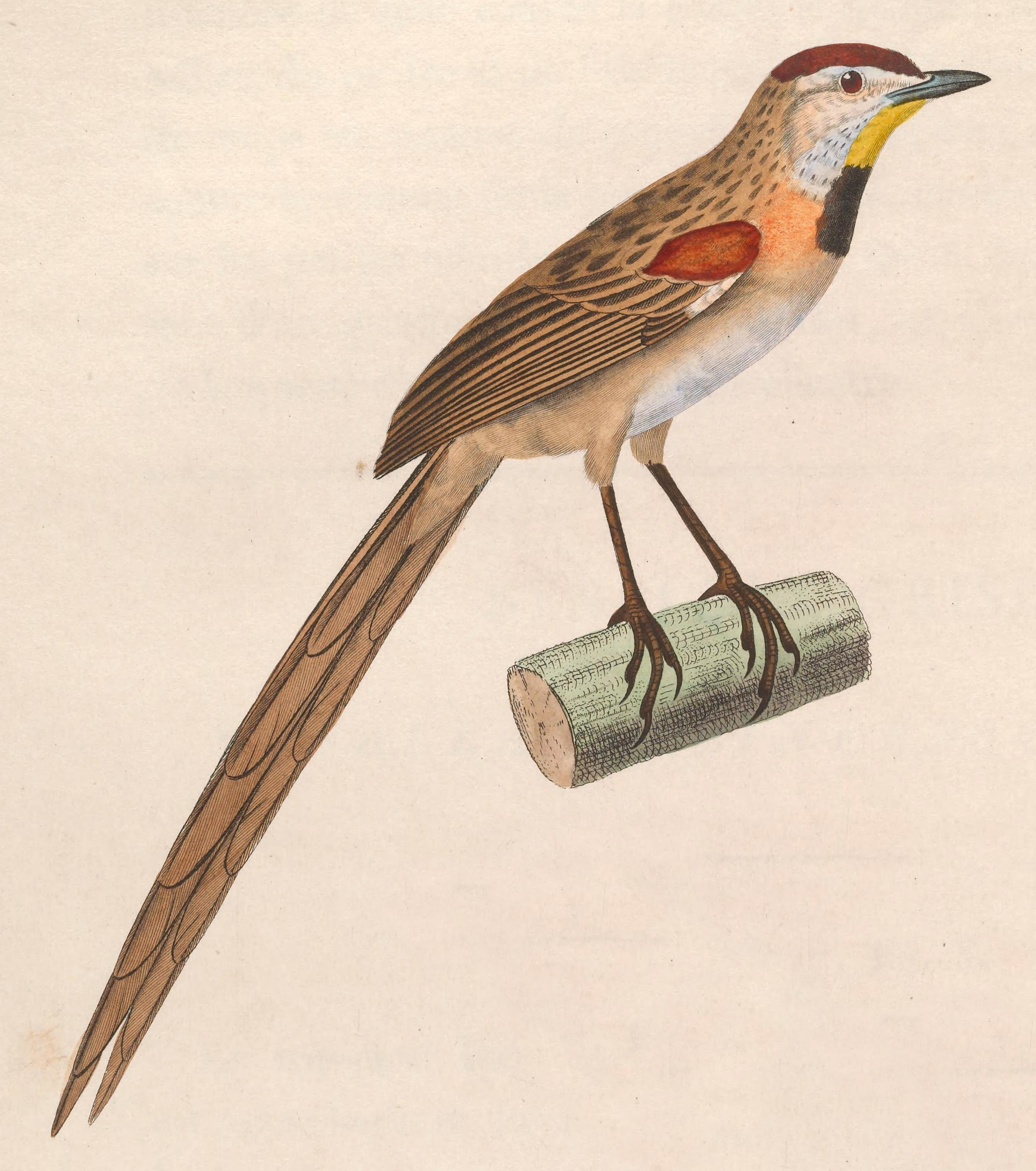 « Synallaxis tecellata » = Schoeniophylax phryganophilus phryganophilus (Subspecies of Chotoy Spinetail)